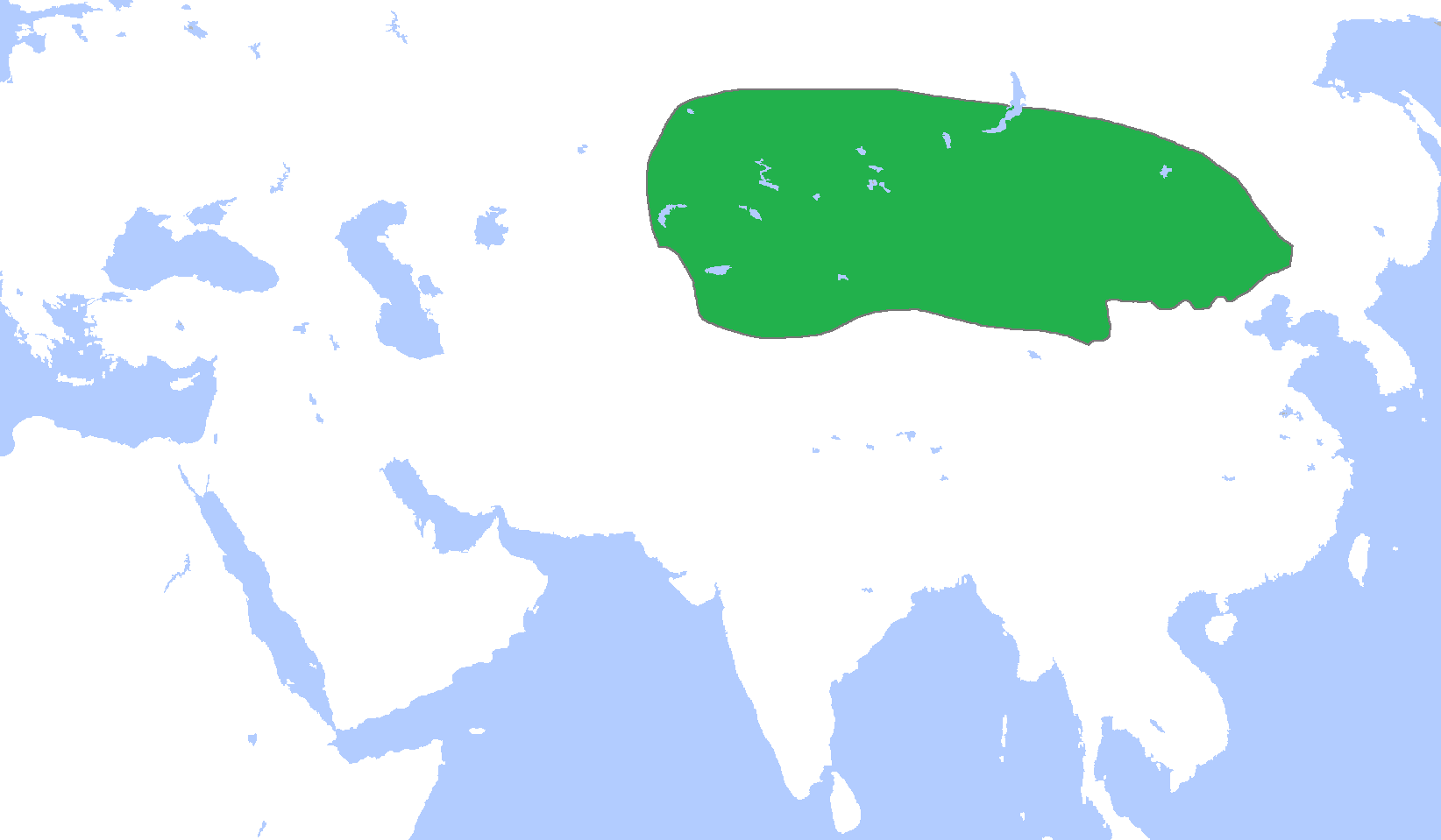 Locator map of Xiongnu, c. 250 BC. (Partially based on Atlas of World History (2007) map.)